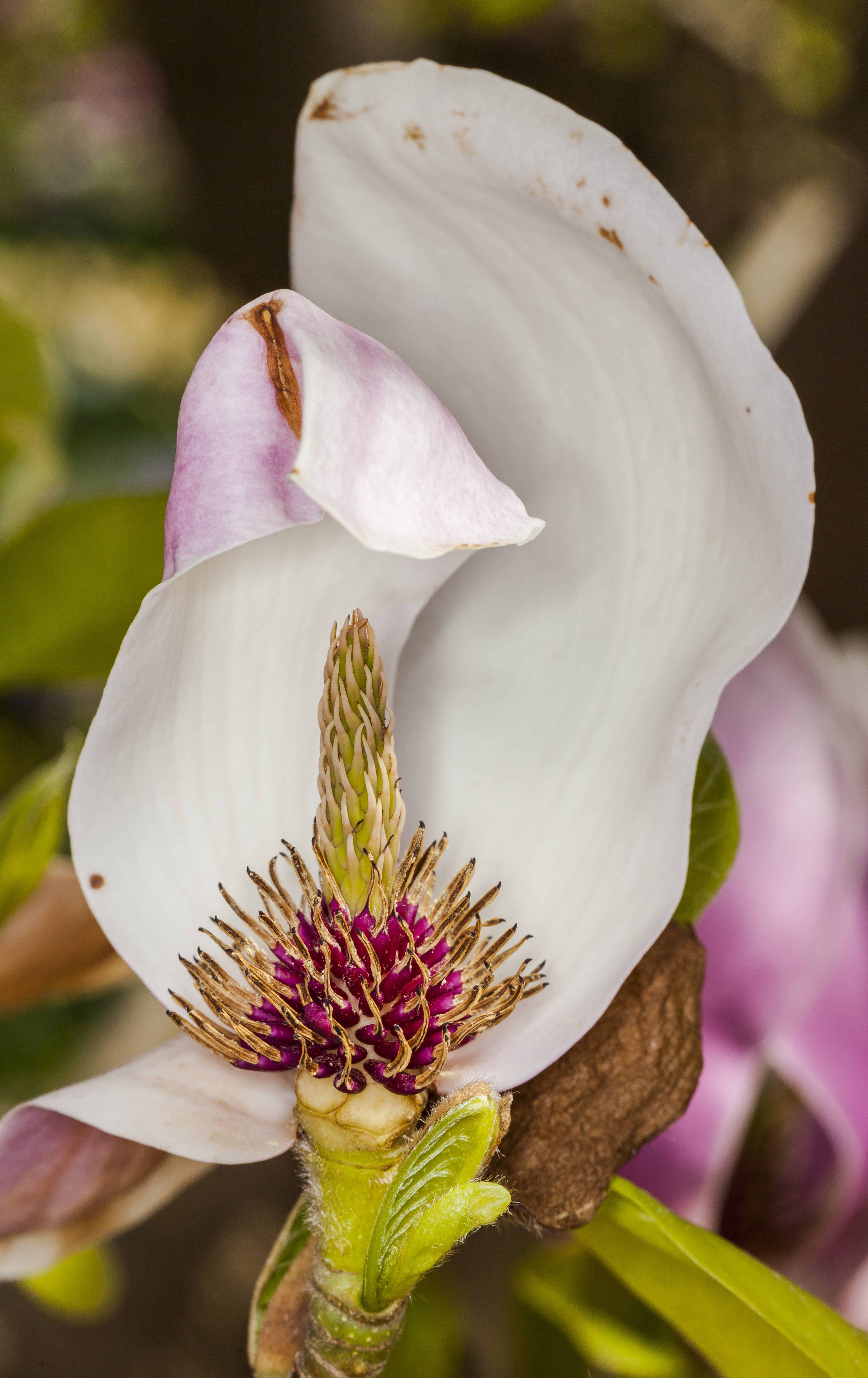 Magnolia × soulangeana 'Speciosa', Munich Botanical Garden, Germany